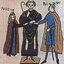 Wedding of Roger I of Sicily and Judith d'Evreux